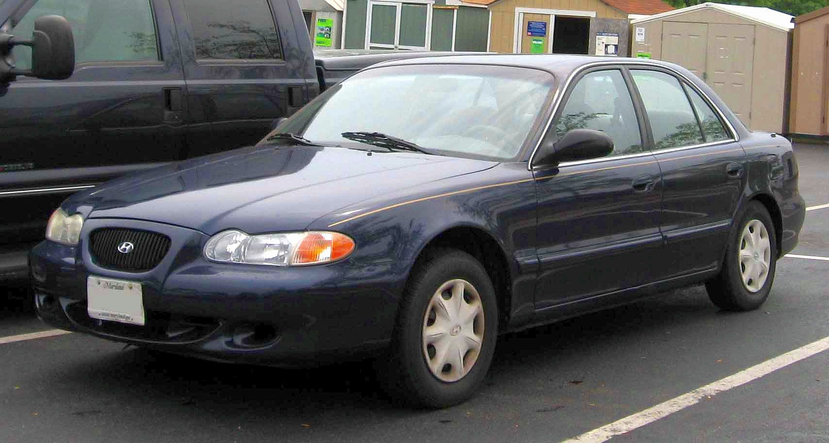 1997-1998 Hyundai Sonata photographed in USA.